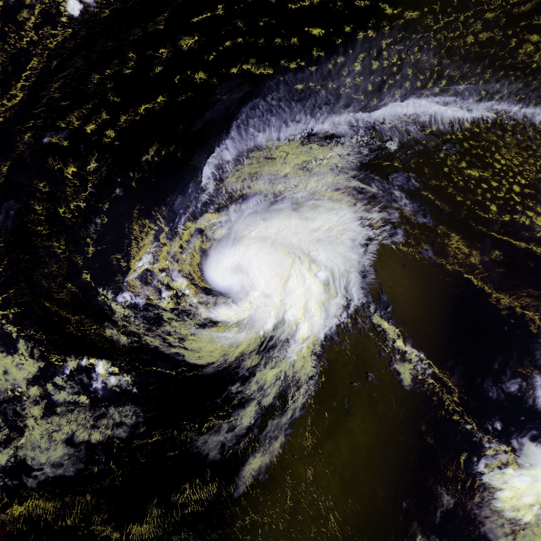 Hurricane Karen on September 26 at approximately 1220 UTC. This image was produced from data from MetOp-2/A, provided by NOAA.